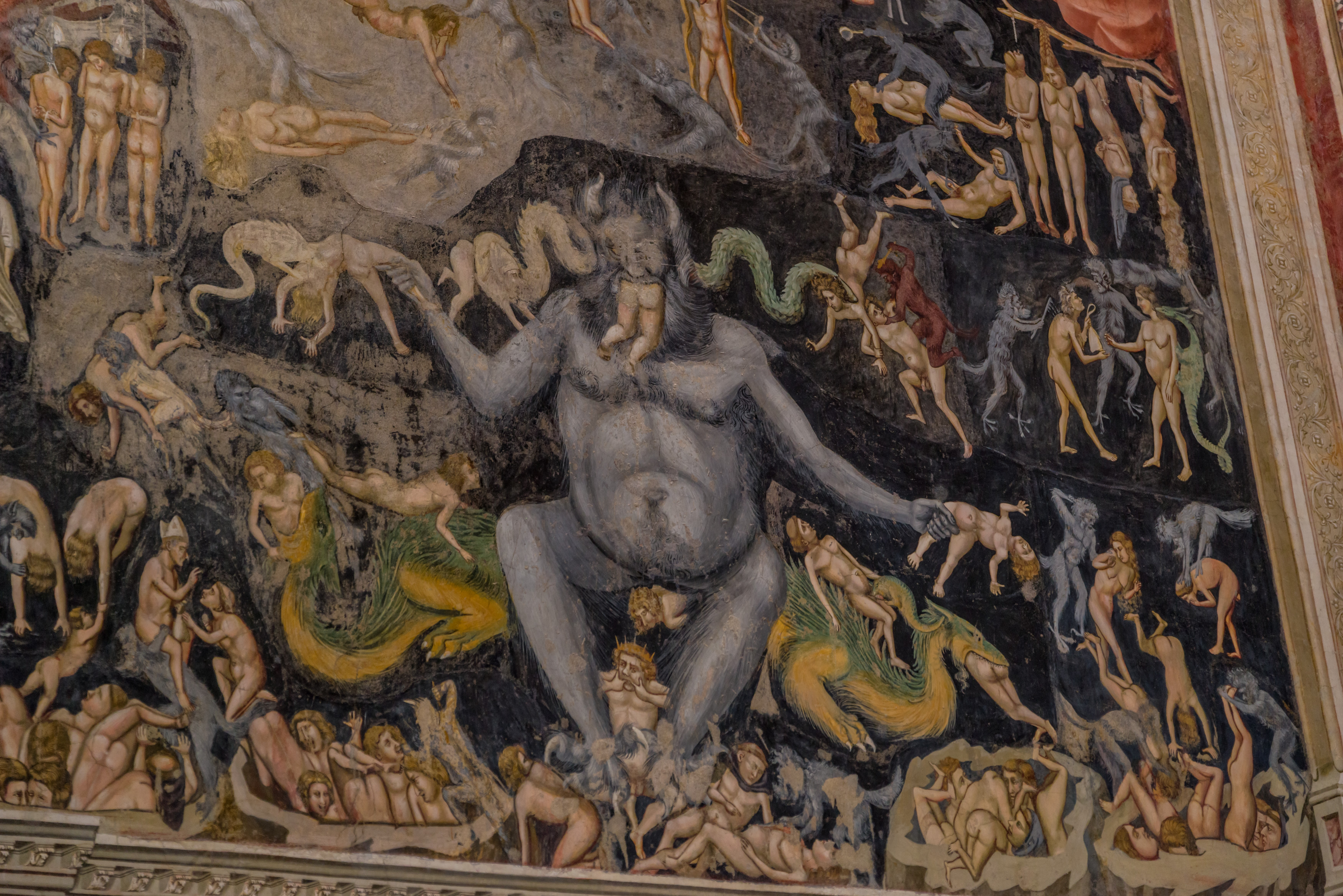 A stroll through Padua